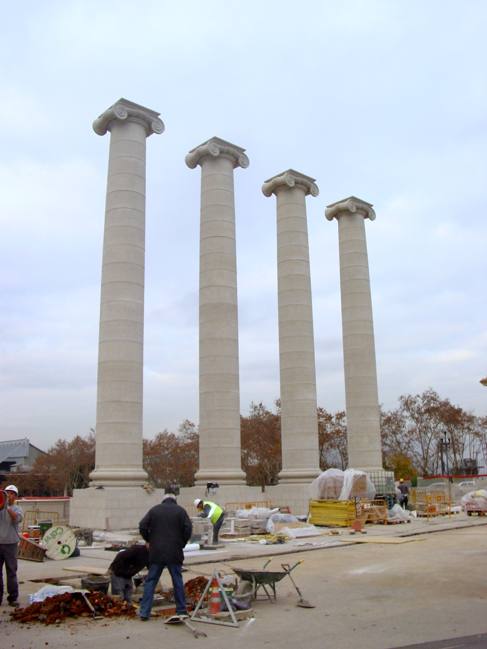 The Four Columns ("Les Quatre Columnes" in Catalan) are a reconstruction of four Ionic columns originally created by Josep Puig i Cadafalch in Barcelona, Catalonia.